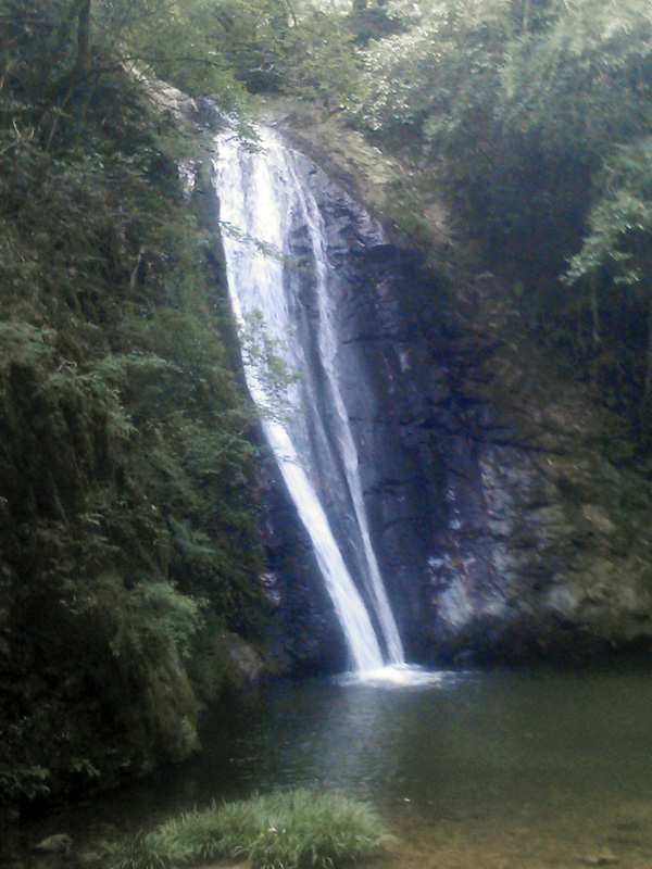 Odaki Waterfall at Kounotaki(Rainbow Waterfall),Komino,Miki-town,Kitagun,Kagawa,Japan.